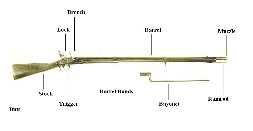 Parts of a Musket. This happens to be a Springfield Model 1822 flintlock musket. Others are similar.